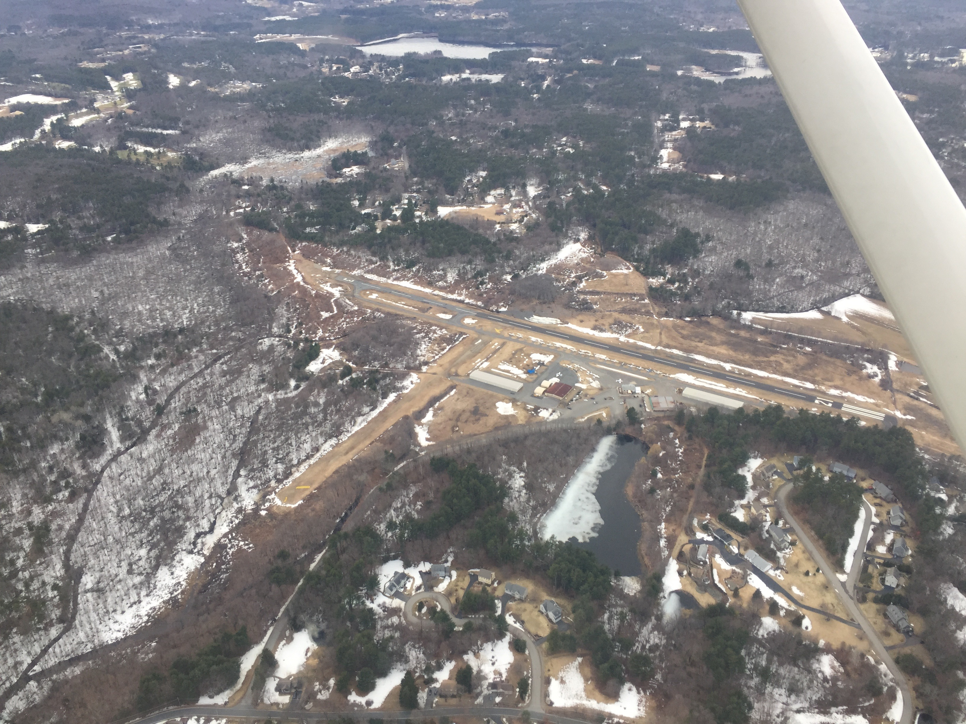 Arial Photo of Minute Man Air Field taken on April 15, 2015 from a Cessna 172